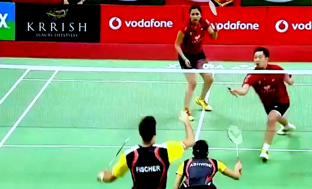 Gutta playing against partner Ponnappa and Joachim Fischer Nielsen at IBL.